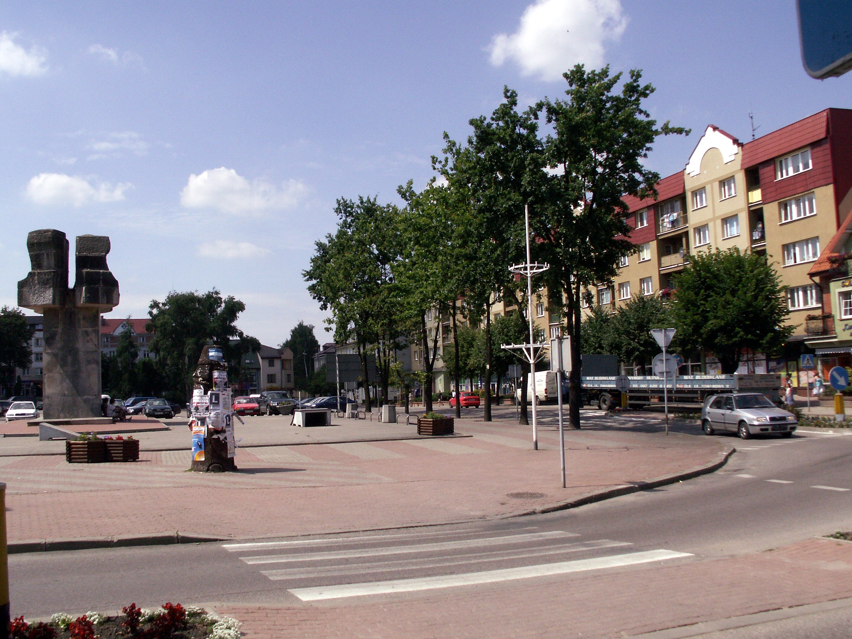 Gołdap